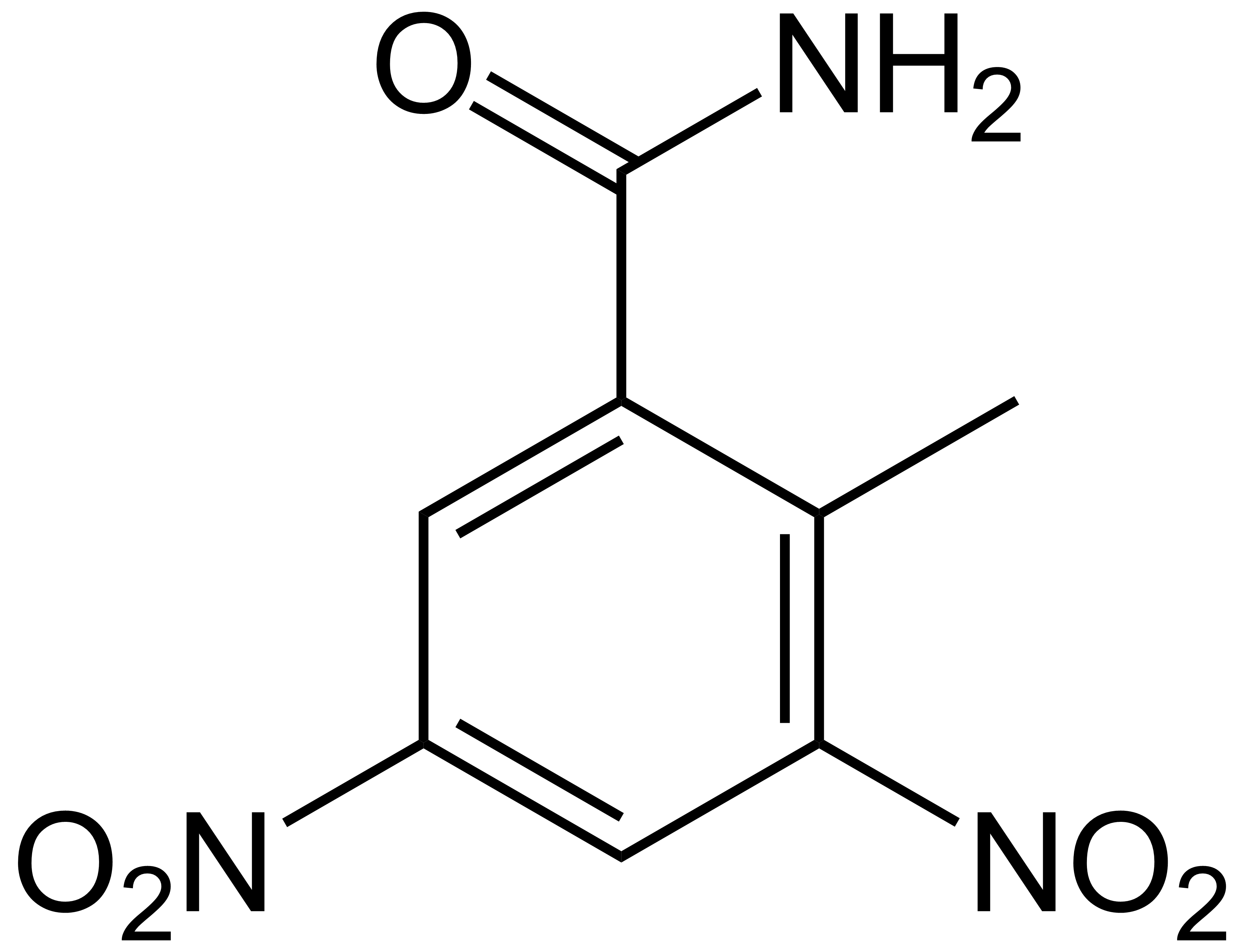 Chemical structure of zoalene